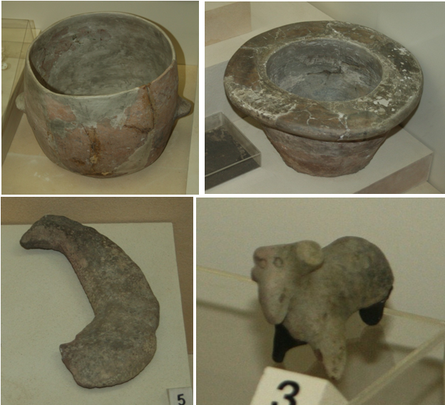 Findings from Kultepe I